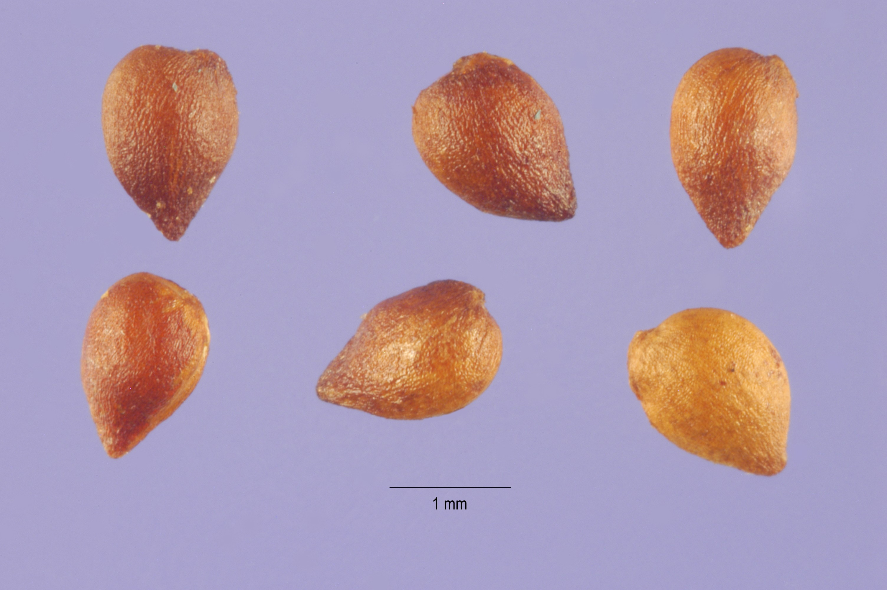 Hairy Lady's Mantle. Family Rosaceae. Seeds.